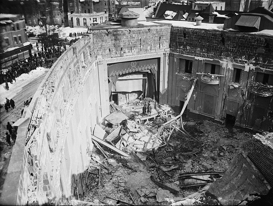 Interior of Knickerbocker Theatre, Washington, DC, following roof collapse on January 28, 1922